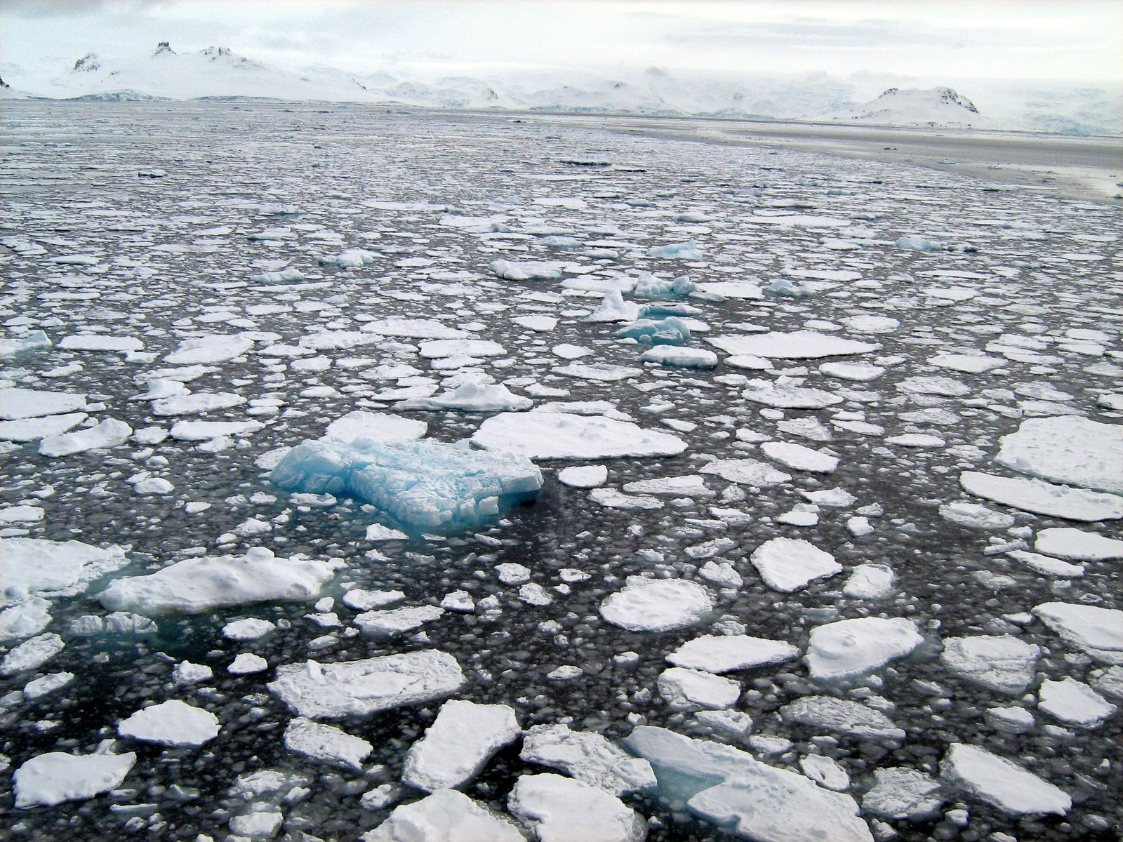 Sea ice in Admiralty Bay, King George Island